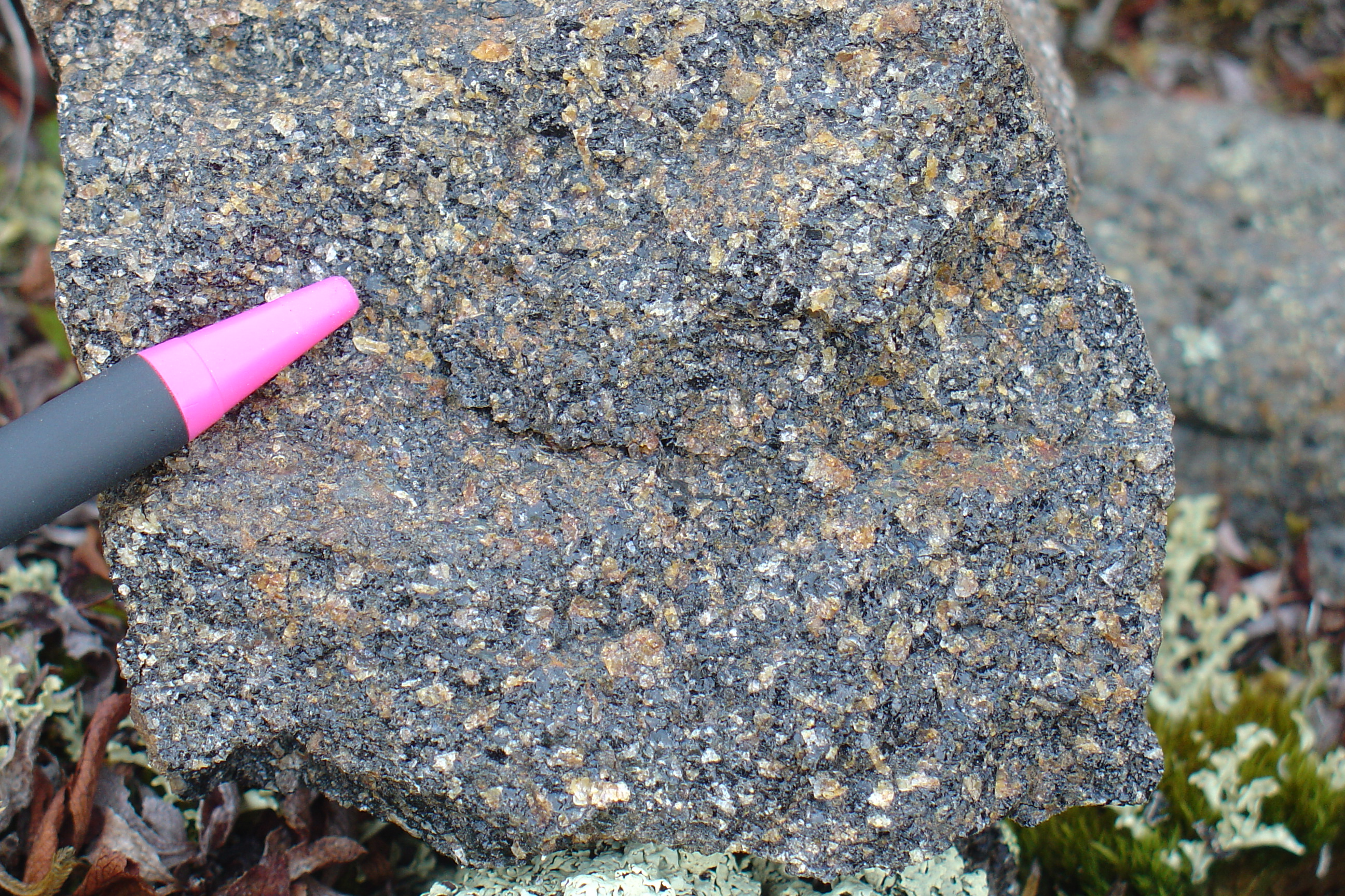 Black crystal-rich rhyolitic vitrophyre from flow-dome complex on NE corner of Big Delta B1 at headwaters of Goodpaster River, Alaska, USA.